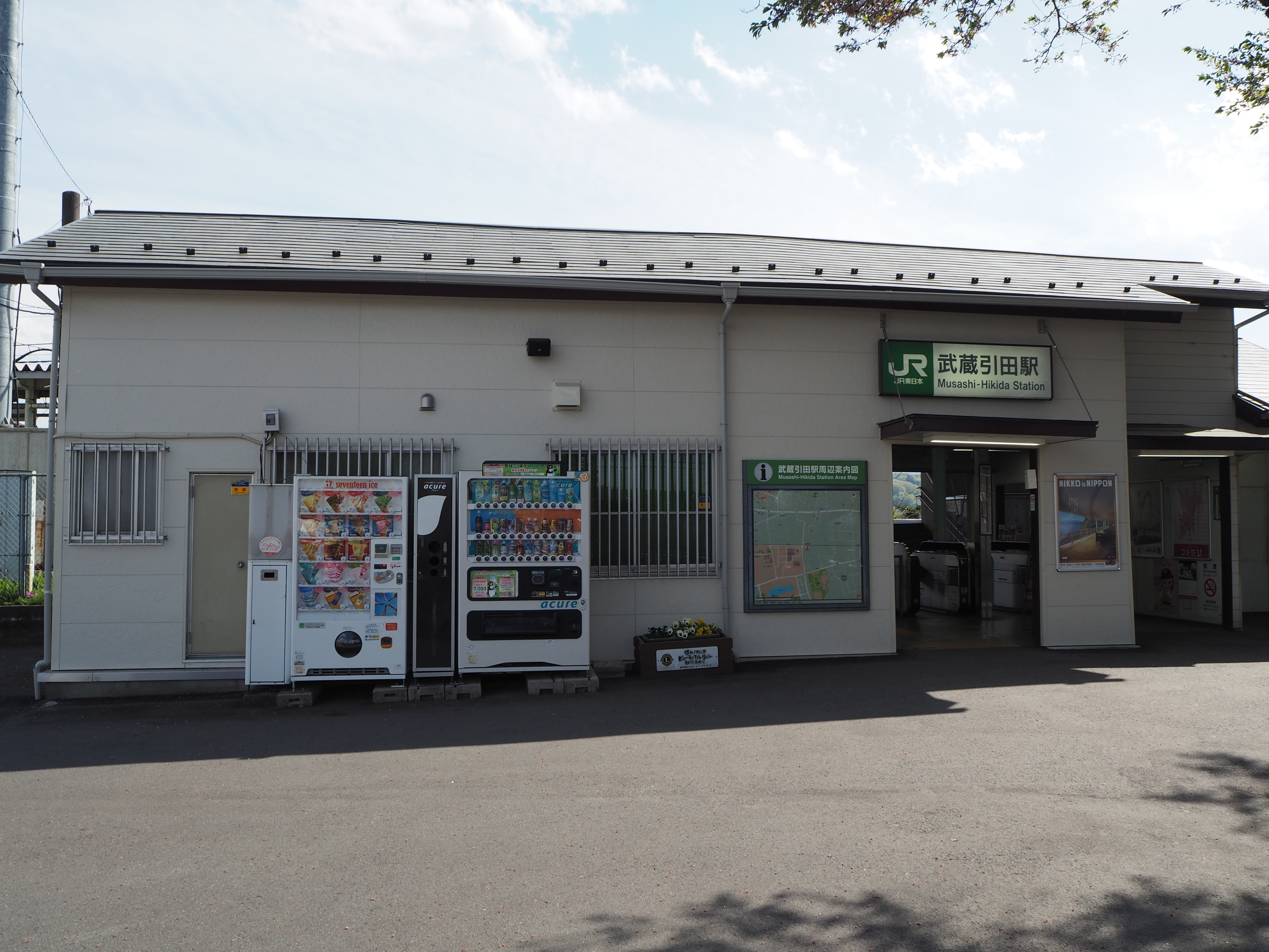 Musashi-Hikida Station